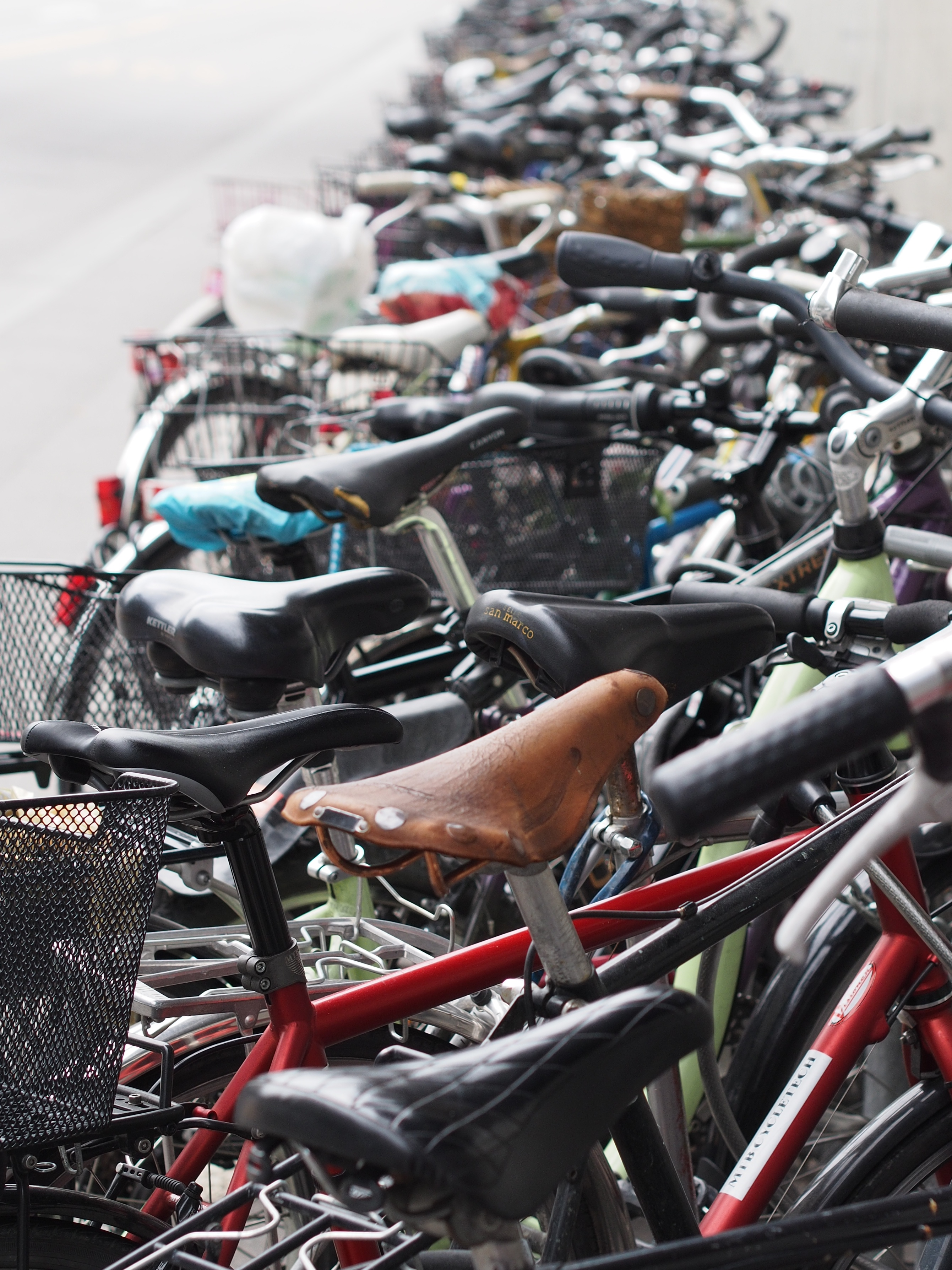 Bicycle saddles.